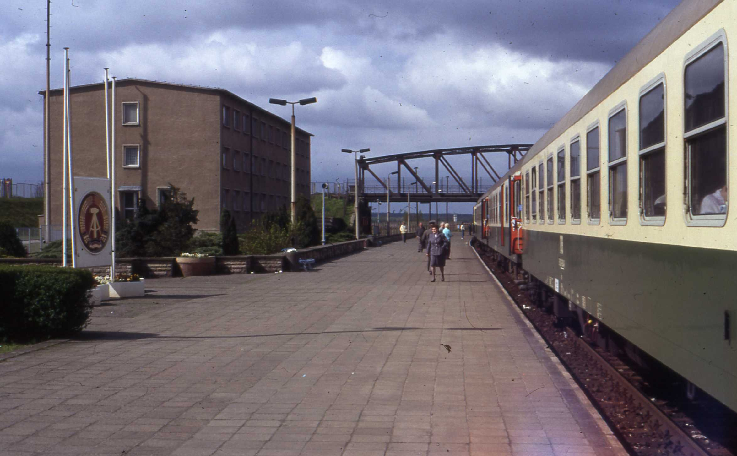 Deutsche Reichsbahn carriages of a Hannover-Magdeburg train wait at Oebisfelde whilst Passports are checked. Photography before 1990 may have caused problems here. The GDR emblem guarded some platform lavatories of which I have a photograph somewhere.